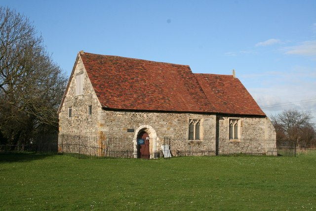 Chapel at Elston, Nottinghamshire, England, seen from the southwest